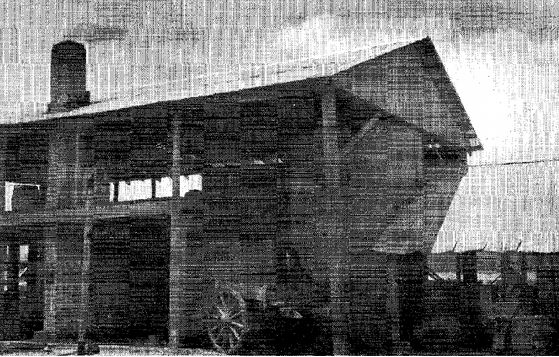 In the production of turpentine, the resin from yellow pine trees is collected and distilled in a copper still, known as a "fire still", equipped with a live steam jet or a water supply.